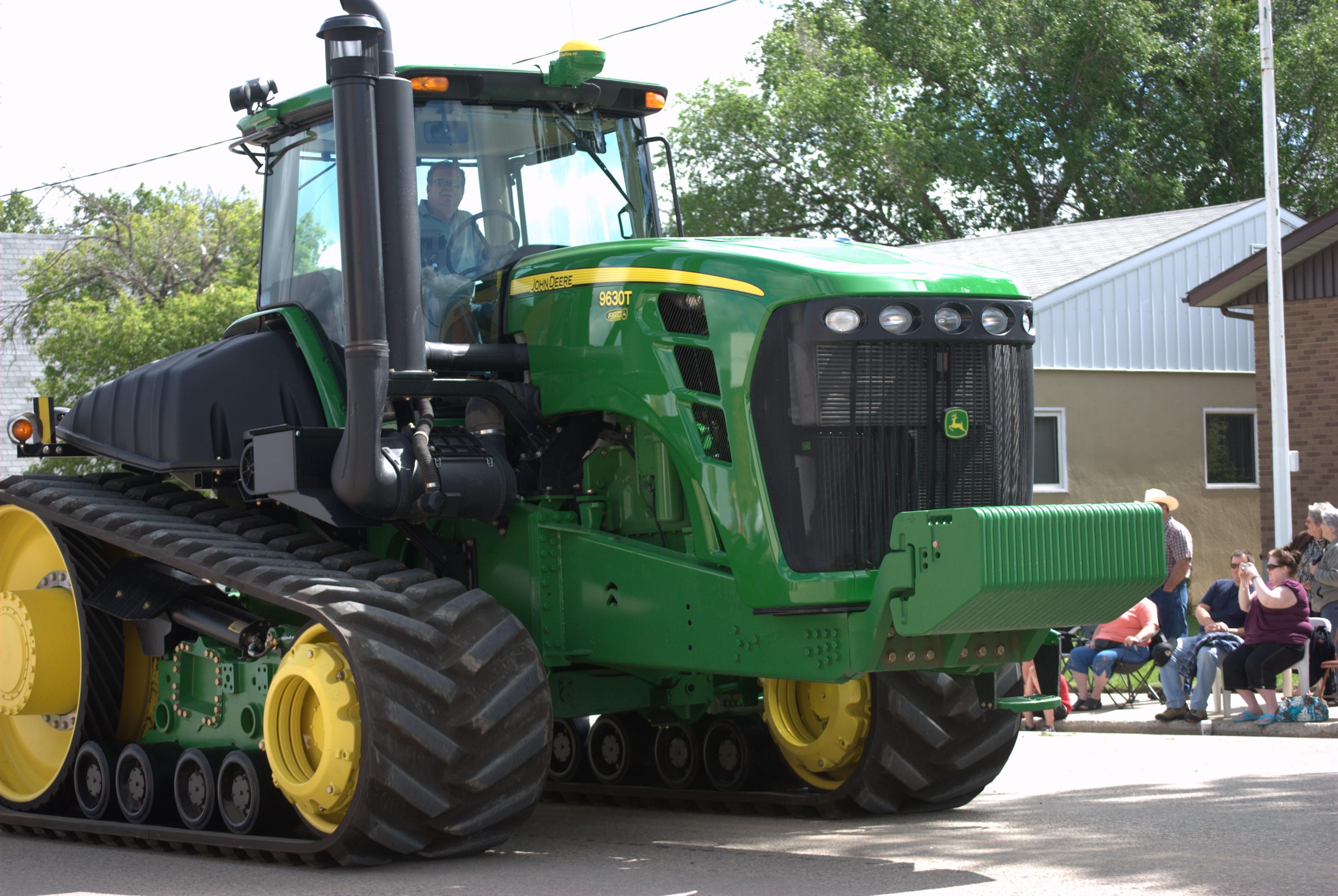 John Deere 9630T; Watrous, Saskatchewan Centennial. Watrous, SK is located one hour SE of Saskatoon. On the July 4-5 it celebrated it Centennial as an incorporated community. The image is from its parade. Watrous is an agricultural community. As such you will always find heavy equipment from local dealerships, like this John Deere tracked field tractor, prominent in parades.